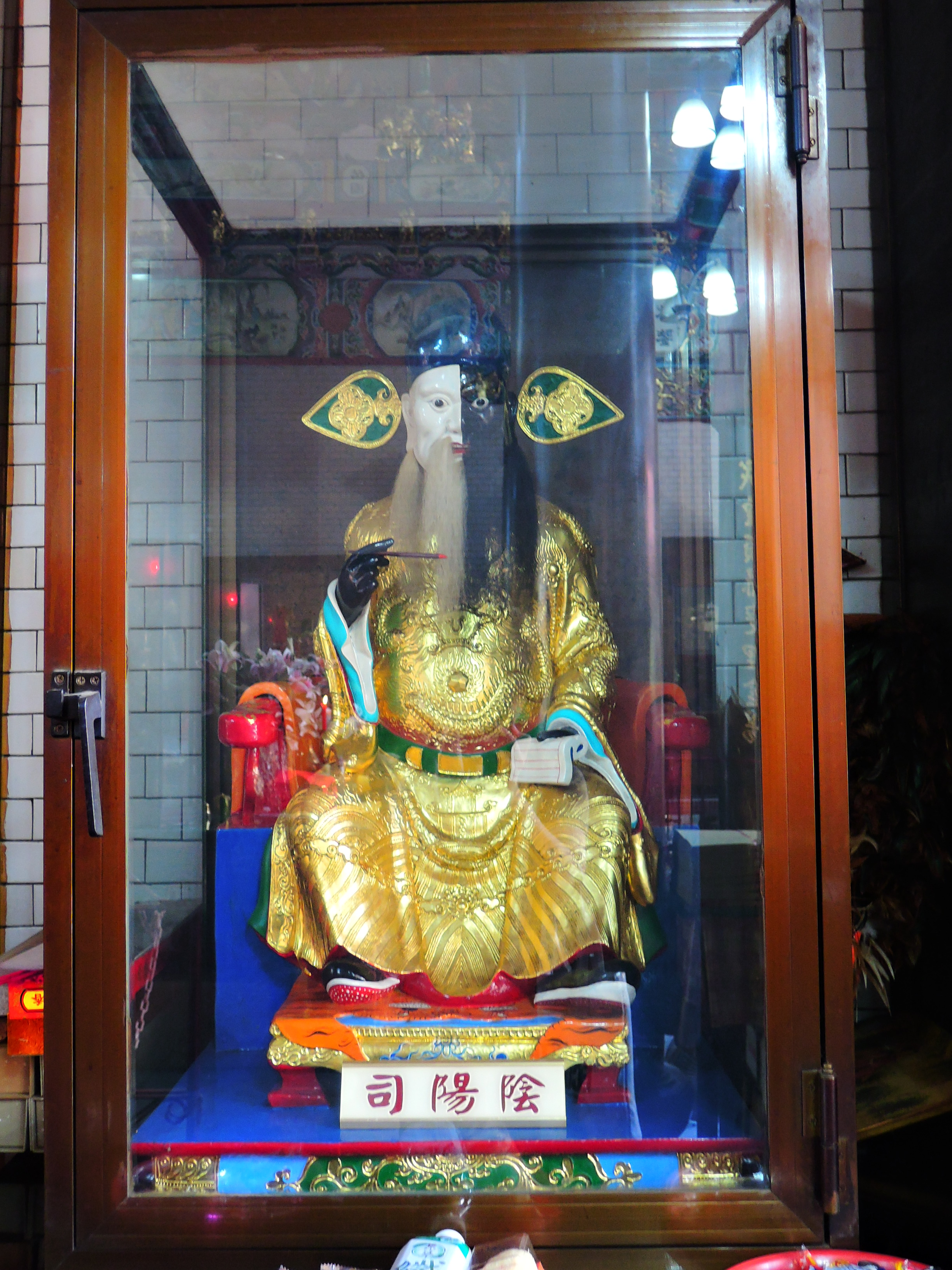 City God Temple, South District, Taichung City.